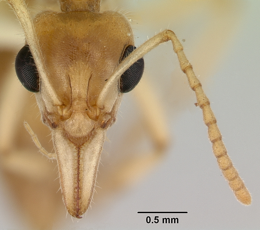 Head view of ant Nothomyrmecia macrops specimen casent0172003.